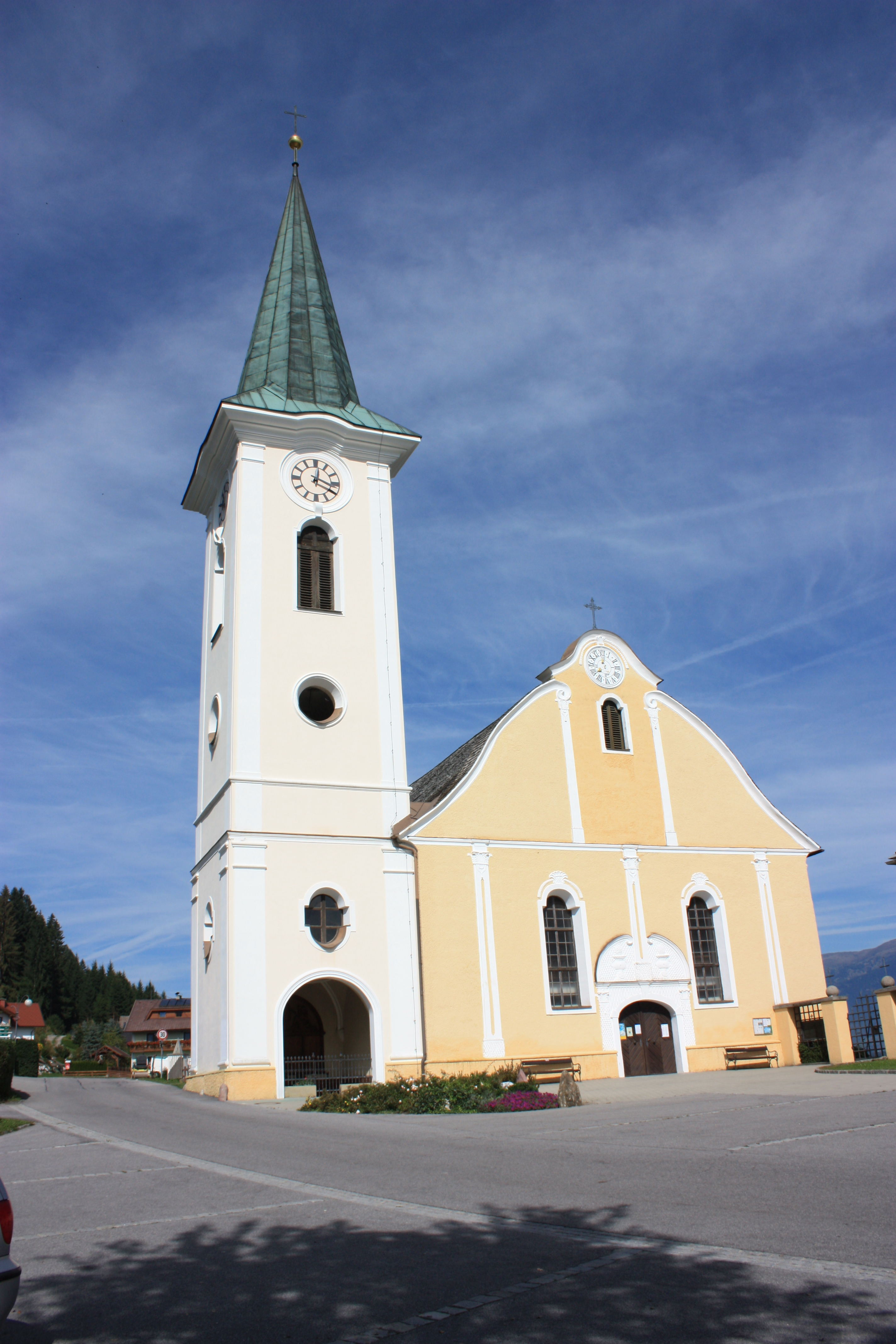 Lutherian Church Locality:Zlan Community:Stockenboi